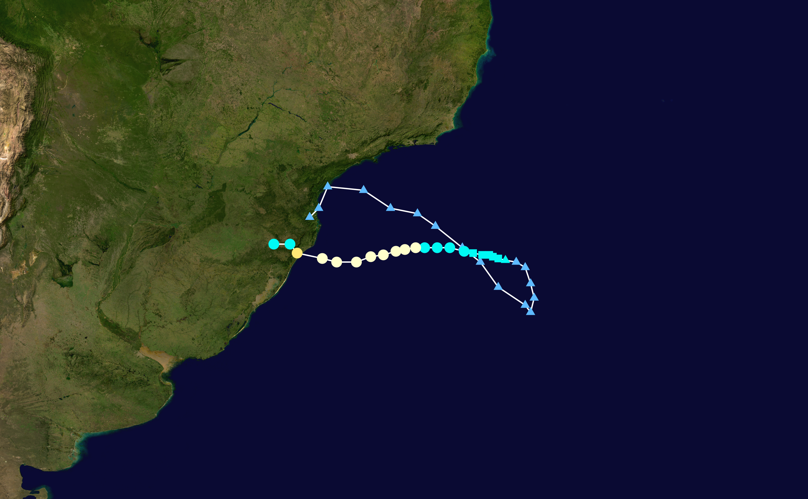 Track map of Hurricane Catarina of the South Atlantic tropical cyclone. The points show the location of the storm at 6-hour intervals. The colour represents the storm's maximum sustained wind speeds as classified in the Saffir–Simpson hurricane wind scale (see below), and the shape of the data points represent the nature of the storm, according to the legend below. Saffir–Simpson hurricane wind scale Tropical depression≤38 mph≤62 km/h Category 3111–129 mph178–208 km/h Tropical storm39–73 mph63–118 km/h Category 4130–156 mph209–251 km/h Category 174–95 mph119–153 km/h Category 5≥157 mph≥252 km/h Category 296–110 mph154–177 km/h Unknown Storm typeTropical cycloneSubtropical cycloneExtratropical cyclone / Remnant low / Tropical disturbance